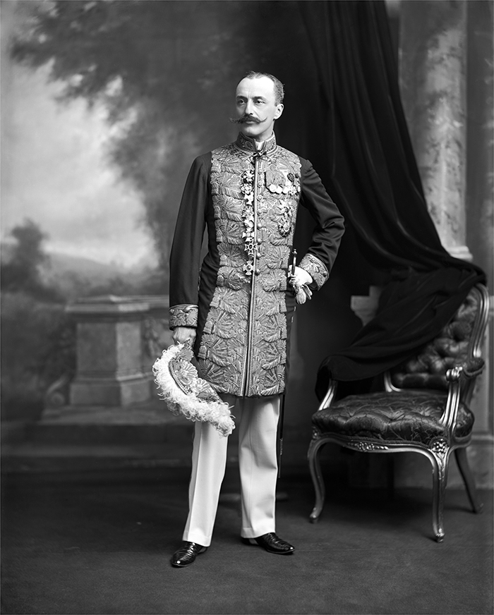 Baron Georges Alexandrovitch de Graevenitz (1857—1939)